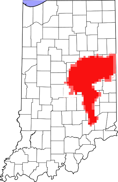 A map showing the location of the Trenton Gas Field